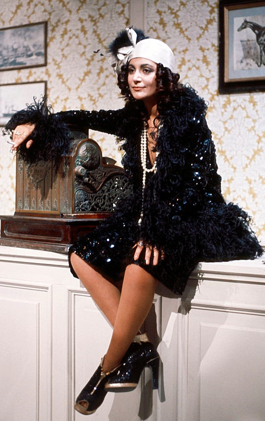 Italian singer Mia Martini (Domenica Berté) posing leaning on an old cash till wearing a 1920s dress. 1975.